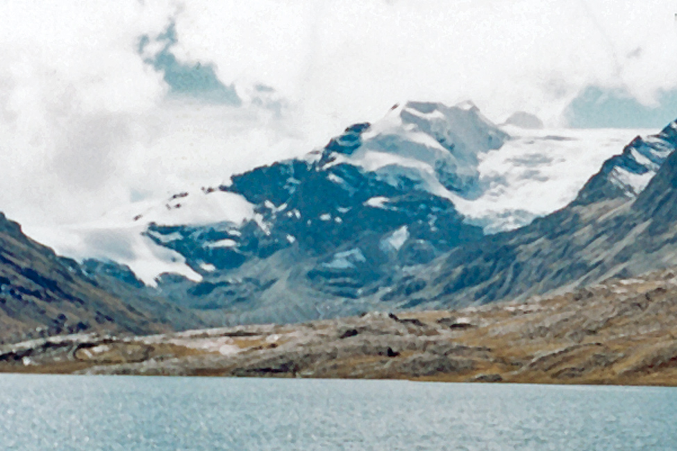 Cerro Jacha Huaracha, Apolobamba, Bolivia